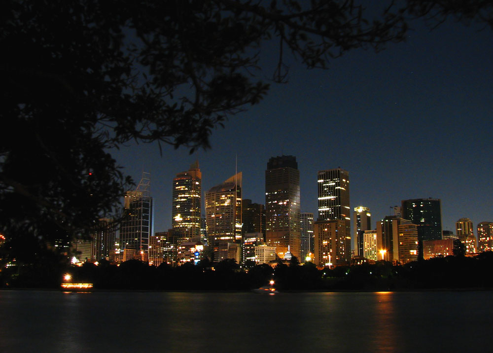 This is a photo of Sydney during Earth hour